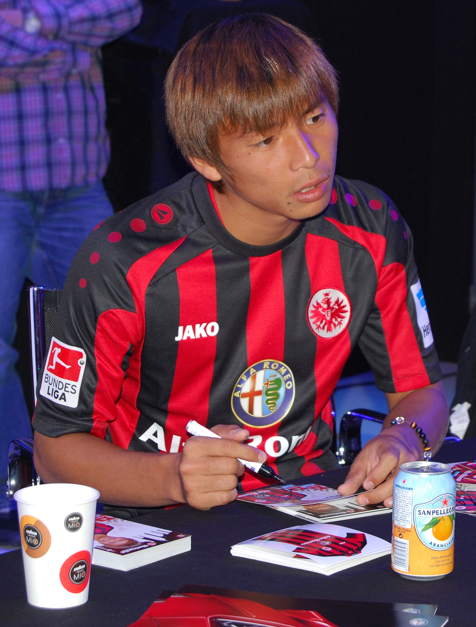 The Japanese footballer Takashi Inui (* 1988) at an autograph session at the stall of Alfa Romeo at Frankfurt Motor Show 2013, Frankfurt am Main.